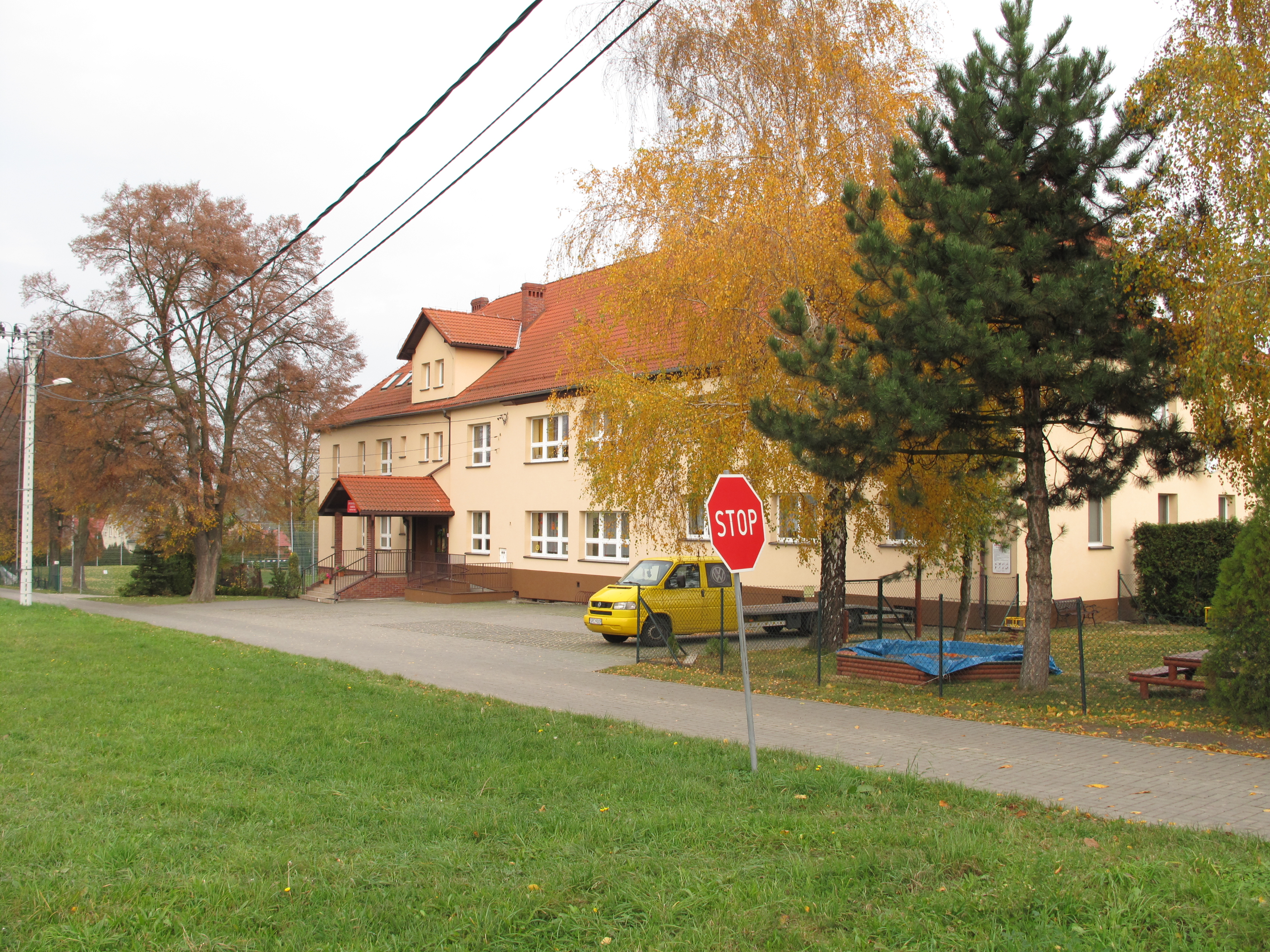 Samborowice (województwo śląskie). Racibórz County, Poland.